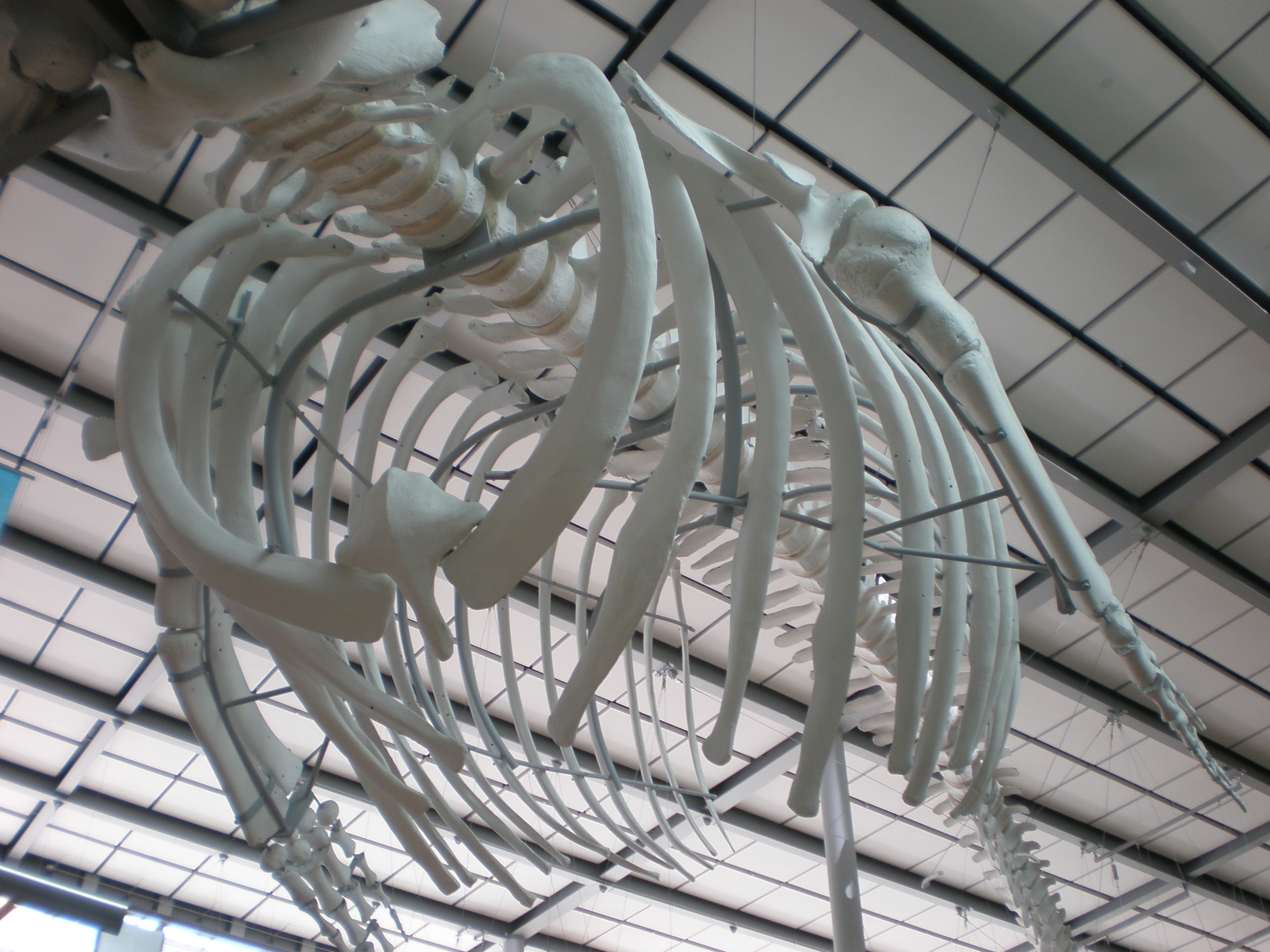 The rib cage of the skeleton of a Blue Whale (Balaenoptera musculus) at the California Academy of Sciences in San Francisco.